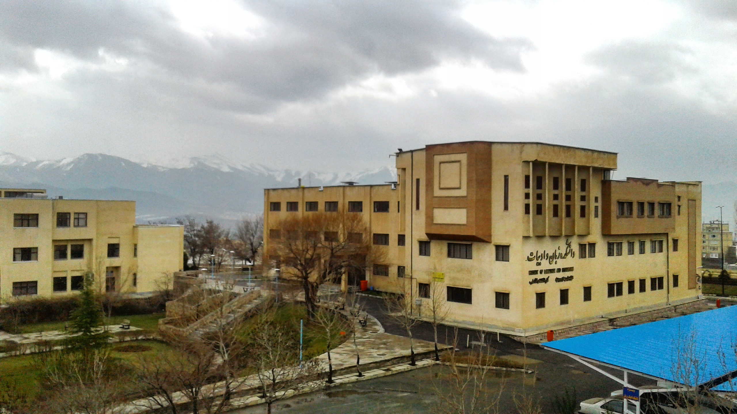 Language and Literature Faculty of University of Kurdistan